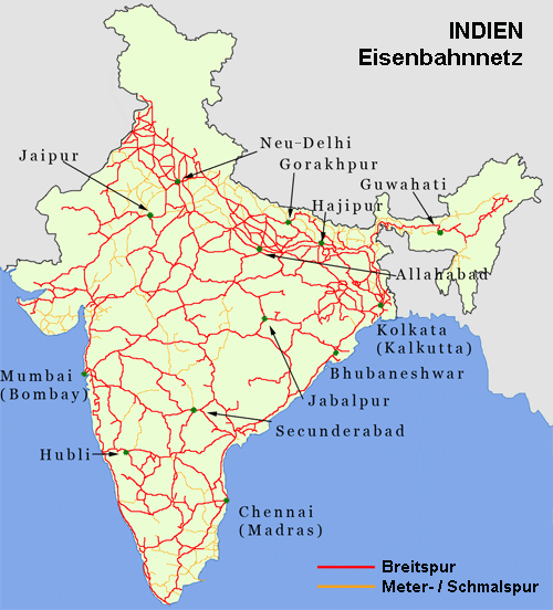 Rail network in India (German map index)